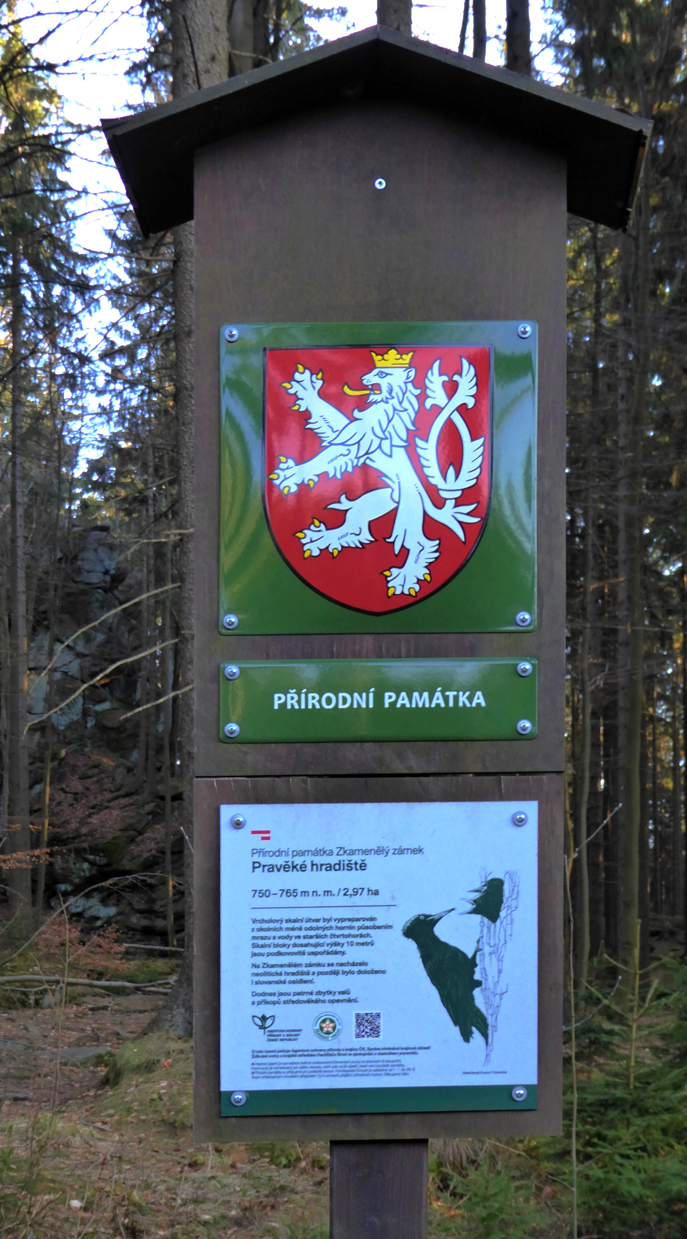 Rock group called Petrified Chateau, natural monument of Žďár Hills. Information table of the Žďárské vrchy PLA Administration at the entrance to the specially protected area. Tourist route of the Czech Tourists Club (blue sign) in the direction from the Karlštejn hunting chateau. Photo-location: Czechia, Vysočina Region, the town of Svratka, a group of rocks called Petrified Chateau (azimuth 178°).